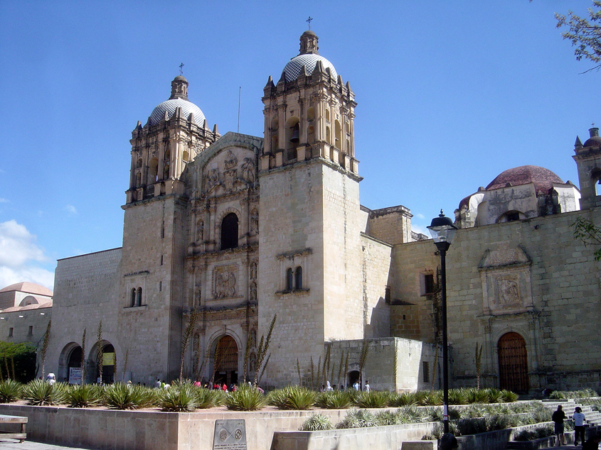 Photo taken by Bobak Ha'Eri. December 2005. Please observe license and properly cite in use outside Wikipedia.